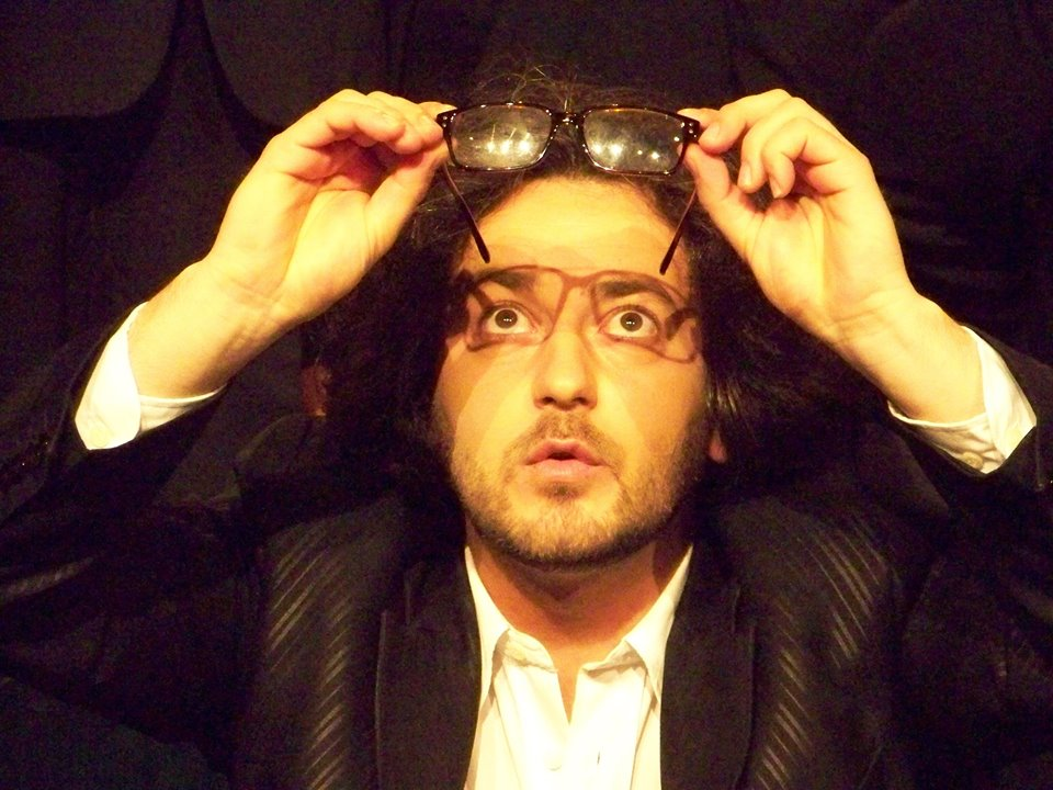 Limeik Topchi in Mannheim